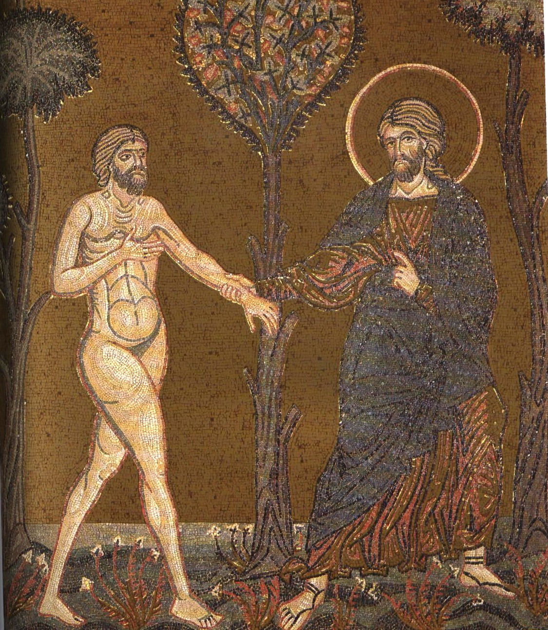 Adam comes to Eden - mosaic in Monreale Cathedral